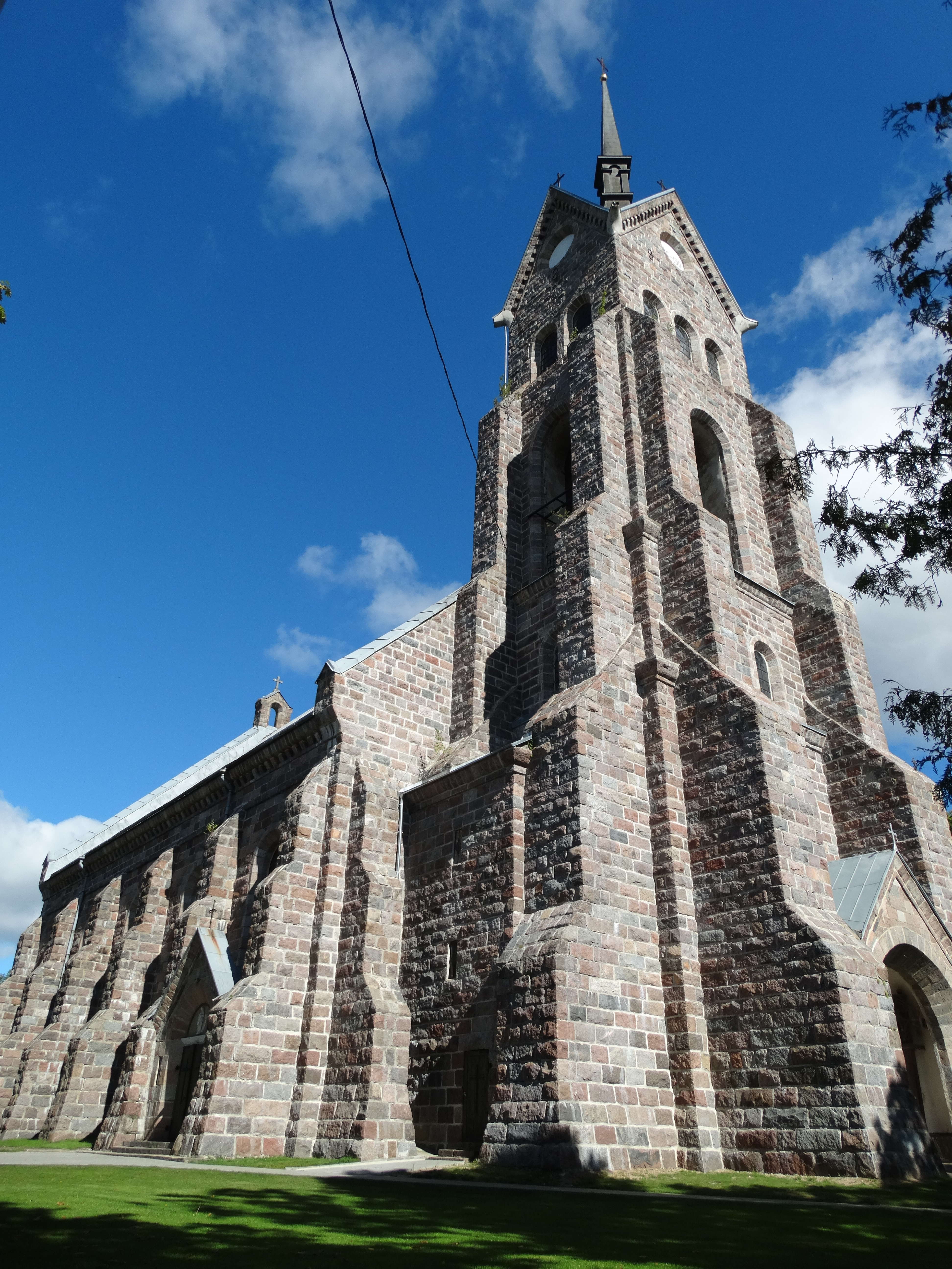 Church of Virgin Mary of Sorrows, Salakas, Zarasai District, Lithuania